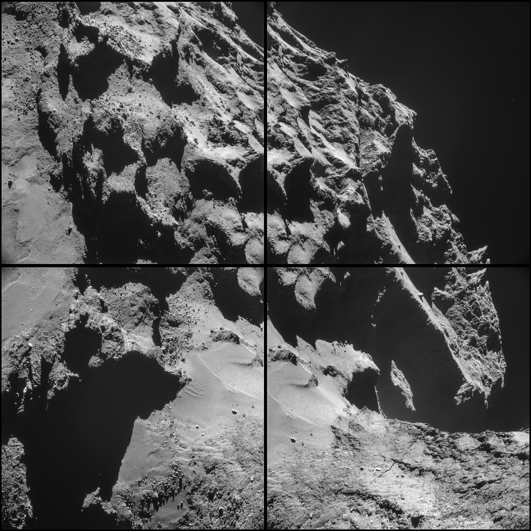 Four-image montage comprises images taken by Rosetta's navigation camera from a distance of 9.8 km from the centre of comet 67P/C-G – about 7.8 km from the surface. The corresponding image scale is about 66 cm/pixel, so each 1024 x 1024 pixel frame is about 676 m across. In this orientation the larger lobe occupies the upper frames, with the neck filling the lower frames. The smaller lobe of the comet is out of view towards the right. The individual image frames and more information is available via the blog: CometWatch – 24 October blogs.esa.int/rosetta/2014/10/27/cometwatch-24-october/ Credit: ESA/Rosetta/NAVCAM, CC BY-SA 3.0 IGO This work is licenced under the Creative Commons Attribution-ShareAlike 3.0 IGO (CC BY-SA 3.0 IGO) licence. The user is allowed to reproduce, distribute, adapt, translate and publicly perform this publication, without explicit permission, provided that the content is accompanied by an acknowledgement that the source is credited as 'European Space Agency - ESA', a direct link to the licence text is provided and that it is clearly indicated if changes were made to the original content. Adaptation/translation/derivatives must be distributed under the same licence terms as this publication. To view a copy of this license, please visit